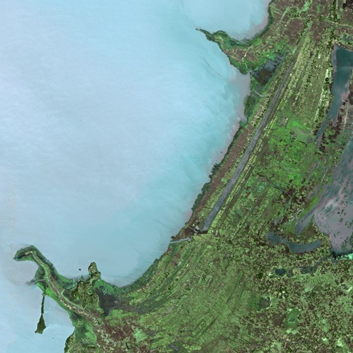 Lake Tana by SPOT Satellite